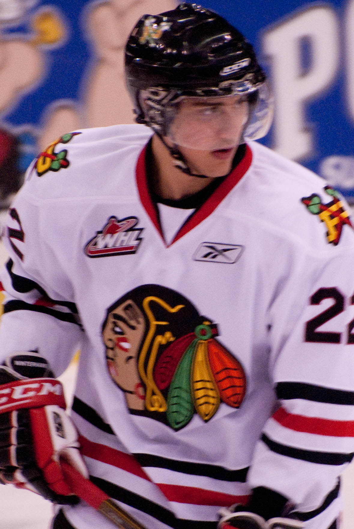 Nino Niederreiter during a game against the Regina Pats.